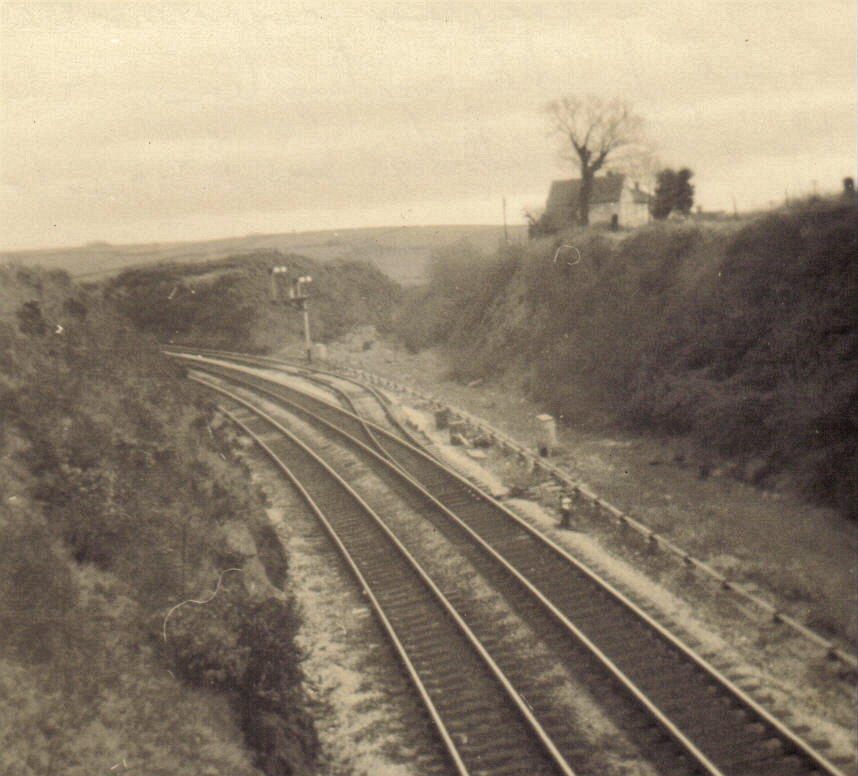 South Brent and the old junction site for the Kingsbridge branch, Devon, England.